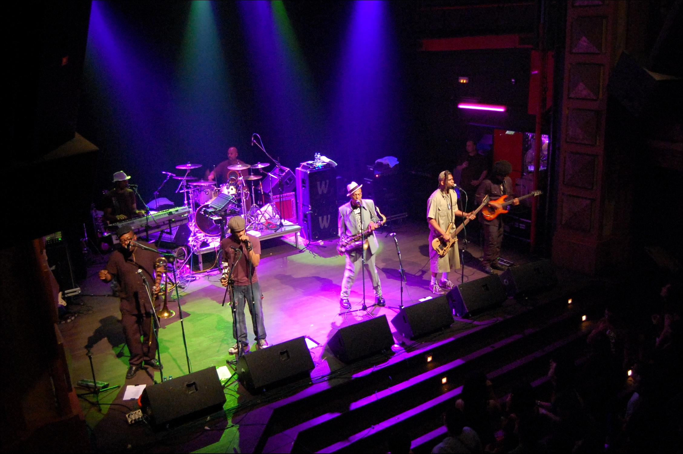 Fishbone